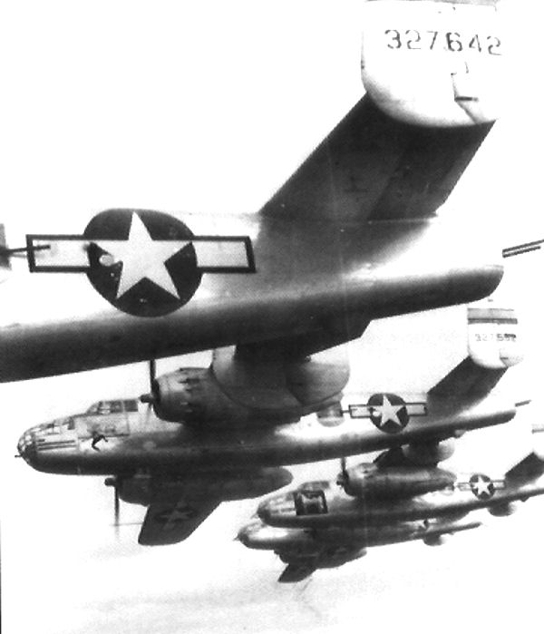 Four B-25J Mitchells of the 380th Bombardment Squadron, 310th Bombardment Group, beginning their attack run over a target in Northern Italy in late 1944. (USAAF Photograph)